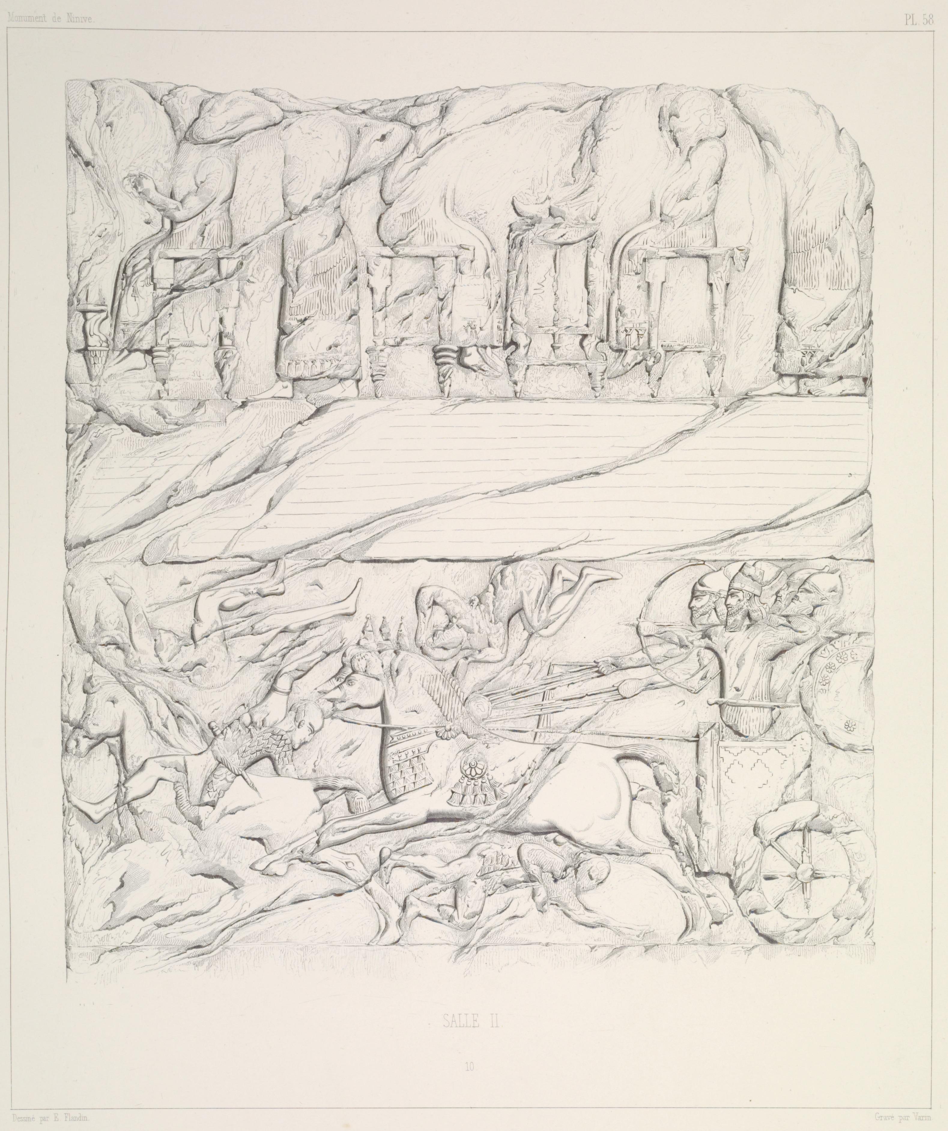 Contents: t. 1-2. Architecture et sculpture. 1849.--t. 3-4. Inscriptions. 1849.--t. 5. Texte. 1850.